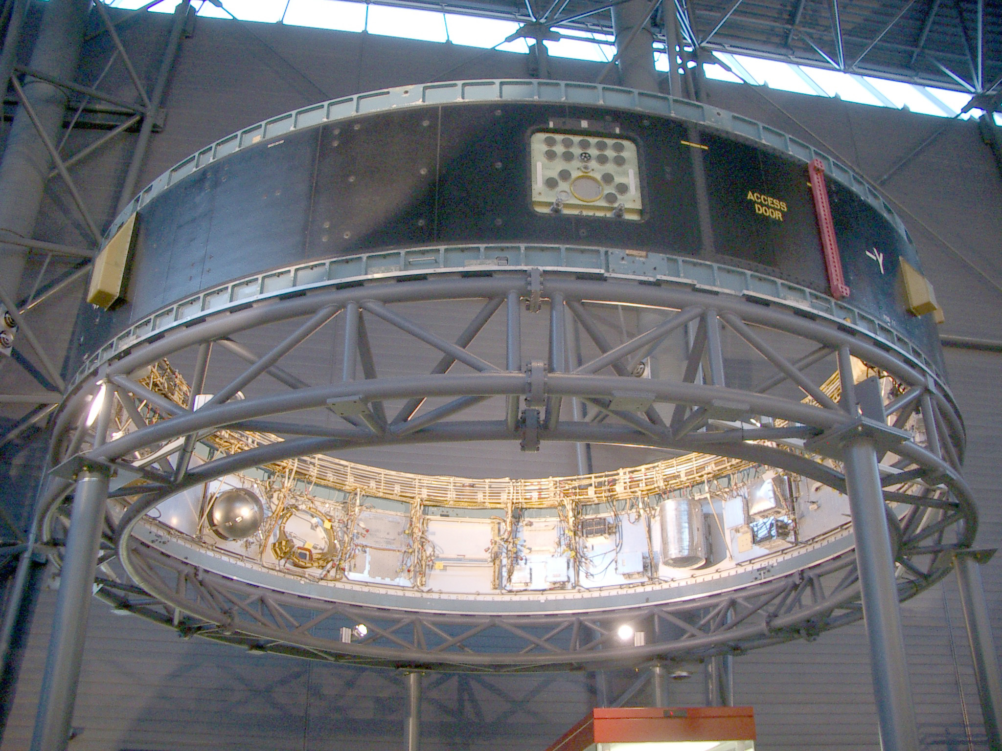 Photograph of Instrument Unit #514 at National Air & Space Museum, Udvar-Hazy Center, Dulles, VA, taken 20 November 2004 by Pablo Jacinto View from the floor, with the umbilical connector to ground support equipment in the middle, on the outside. In flight this would have been covered by a door that is missing. The large tan boxes on the outside are antennas; on the right is a VHF telemetry antenna, and on the left is a command communications system directional antenna. On the interior wall on the left is the sphere holding gaseous nitrogen for the gas bearings in gyros of the ST-124 stabilized platform. The ST-124 is missing from IU-514, and would have been mounted on the ring to the right of the nitrogen sphere. The large cylinder five positions to the right is the flight control computer.